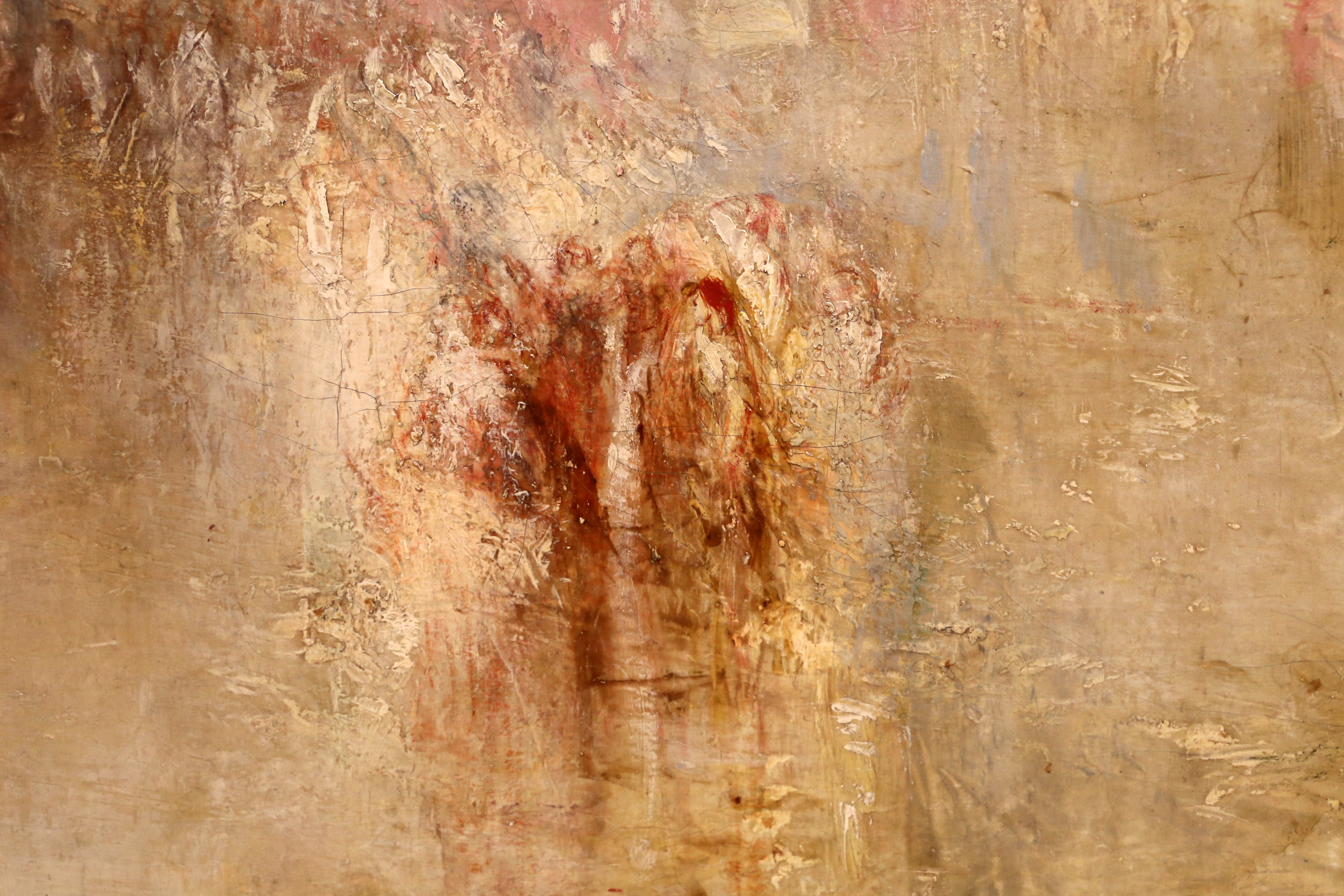 Paintings by Joseph Mallord William Turner in Tate Britain